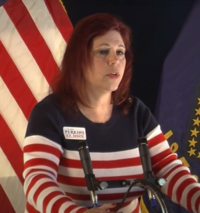 Pavel Goberman & JoRae Perkins, Republican Senate Candidates at the Washington County Public Affairs Forum May 5th, 2014